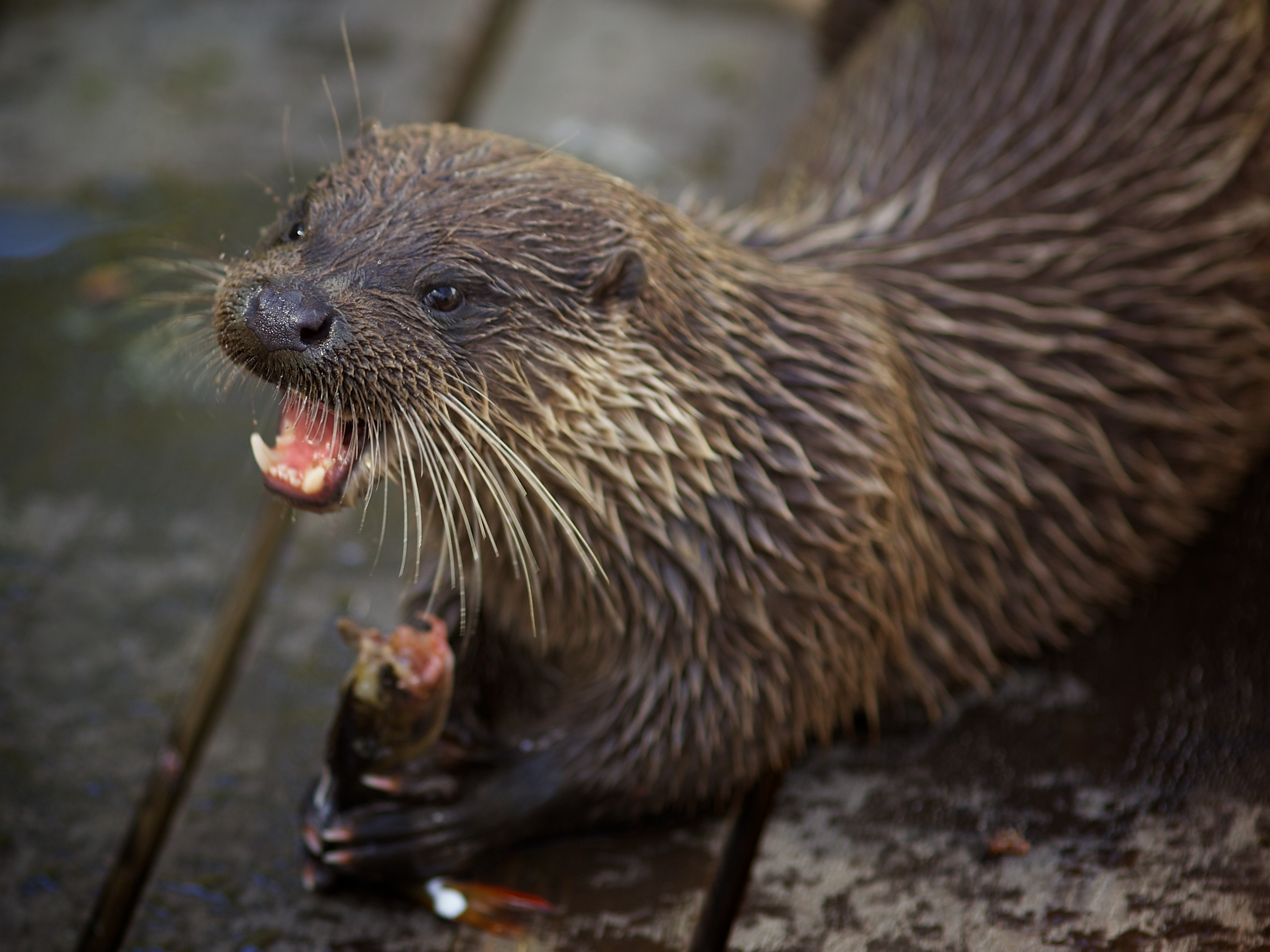 Fishy snack